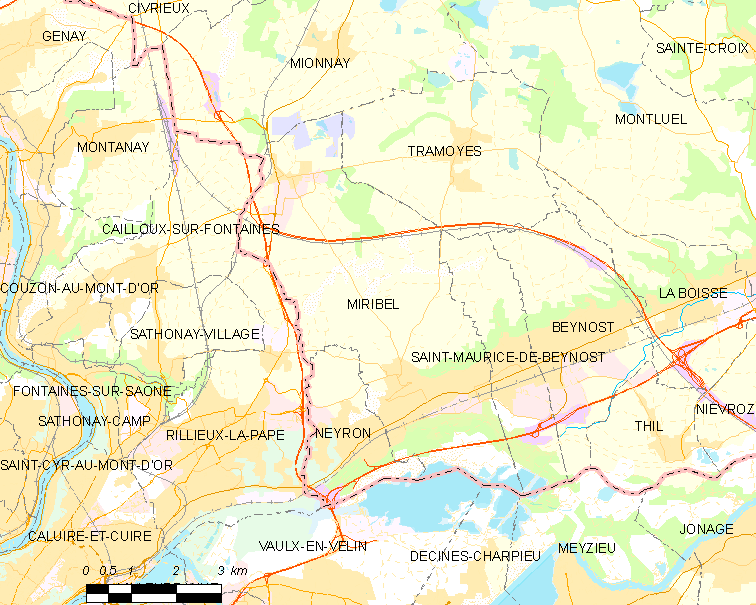 Map of French commune: Miribel Map commune FR insee code 01249.png